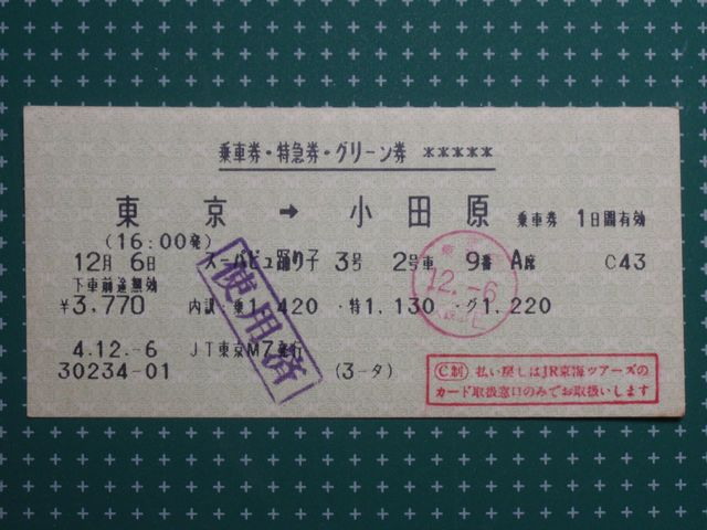 Limited Express Ticket for Reservation seat Green Car at 1992.